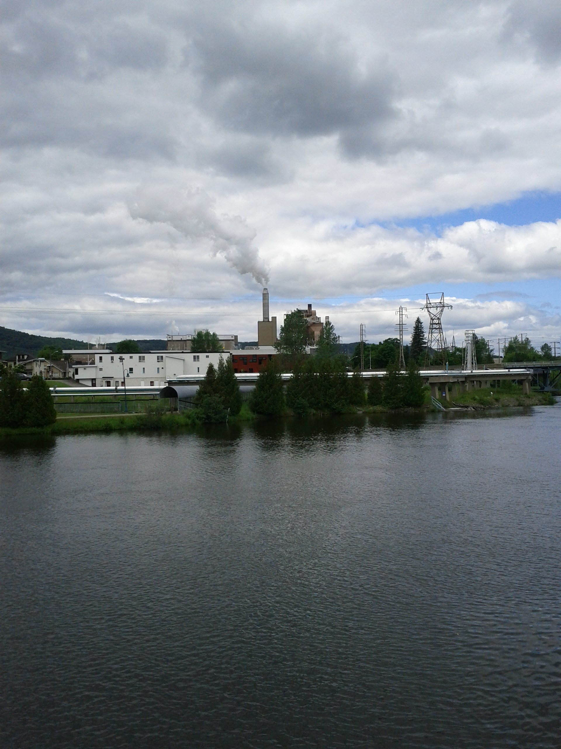 The smokestack of the Twin River paper mill (formerly known as Fraser Paper) in Edmundston, New Brusnwick.